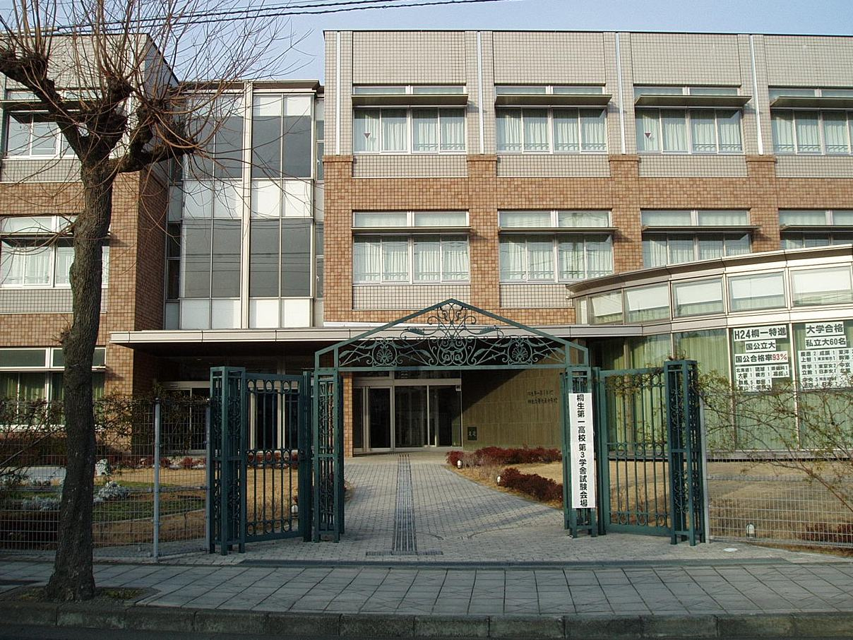 The entrance to the 3rd Campus, Kiryu Daiichi High School & Kiryu University Junior High School, located in Kiryu, Gunma, Japan.